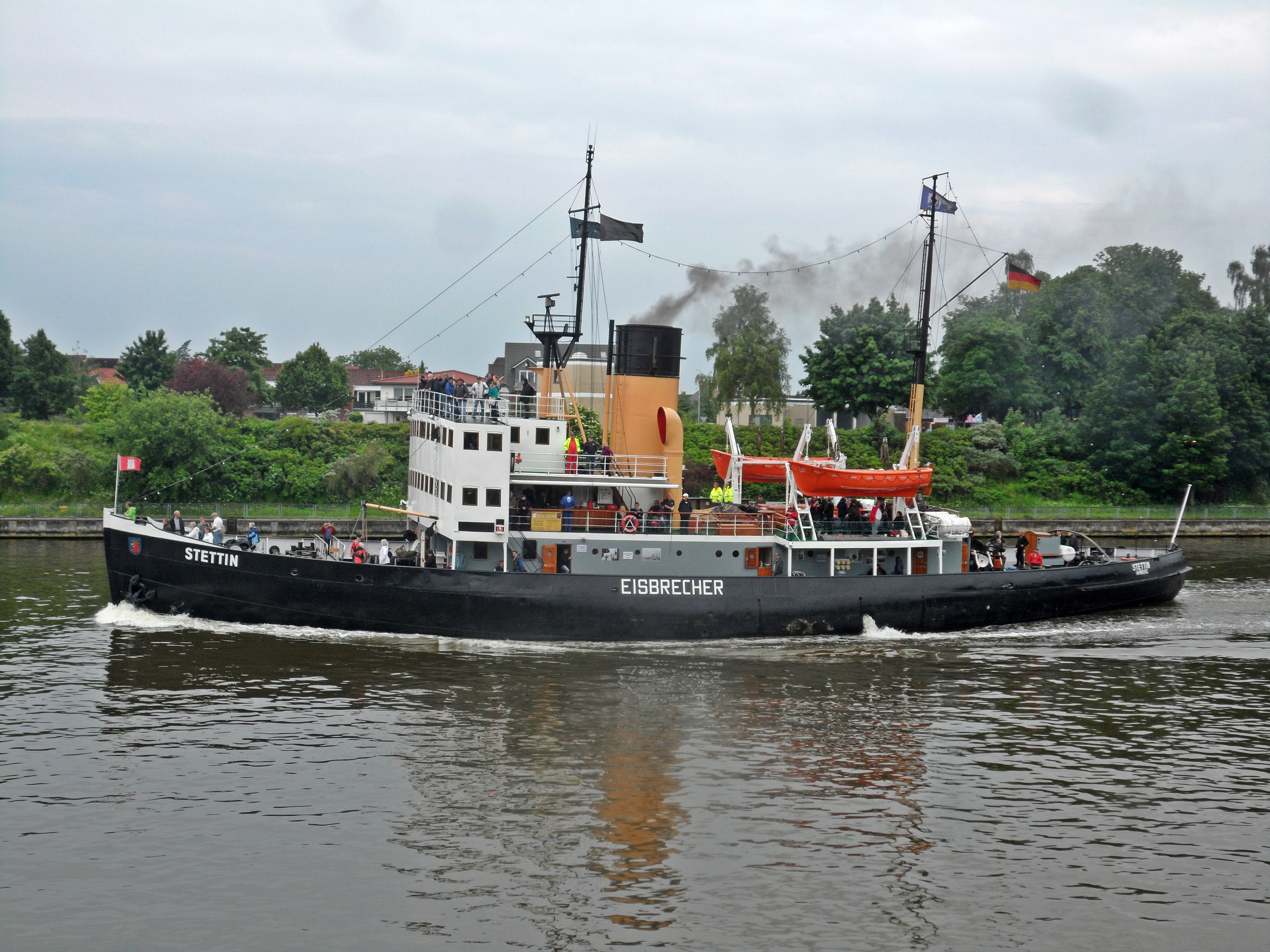 Eisbreaker Stettin in the Kiel-Channel in Rendsburg on the way to Kiel Week 2012 (Kieler Woche 2012)